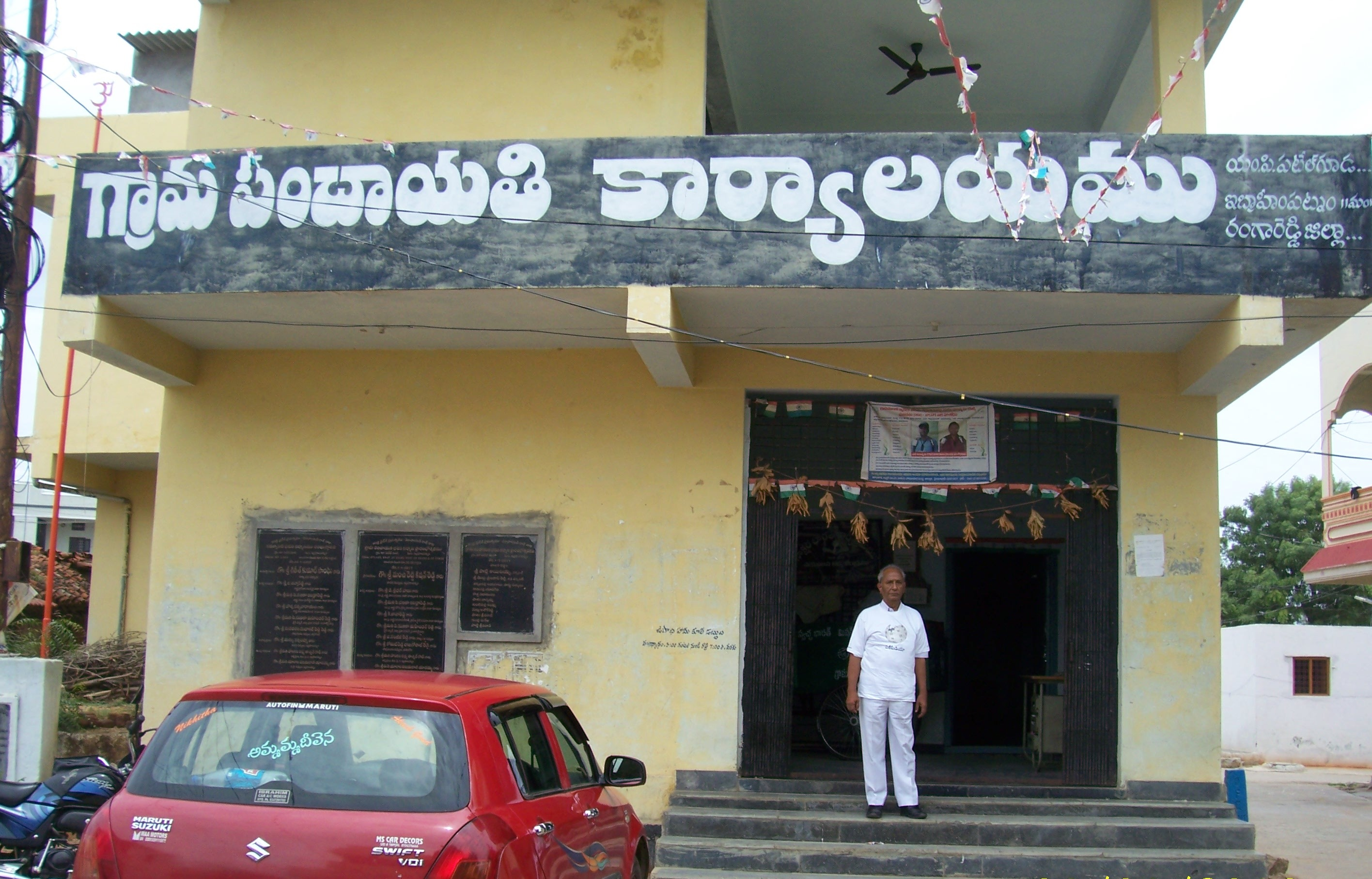 Panchayat office